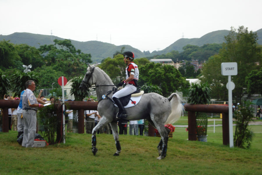 Beijing 2008 Olympic Game - Equestrian Event - Cross-Country Test of the Eventing Competition, held on The Olympic Equestrian Venue (Beas River) on 2008.8.13. HUA Tian (華天)Alex/Chico, representative of China in Eventing.